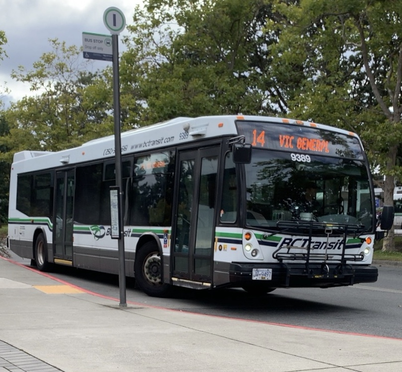 photograph August 21, 2019 16:20